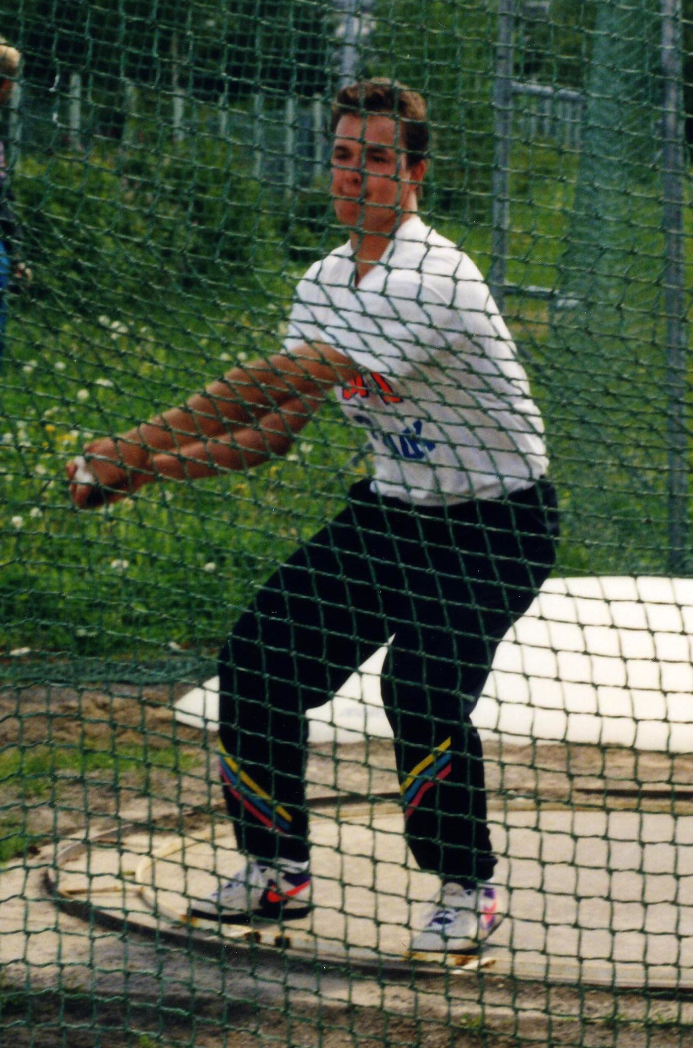 Mika Laaksonen, 1995